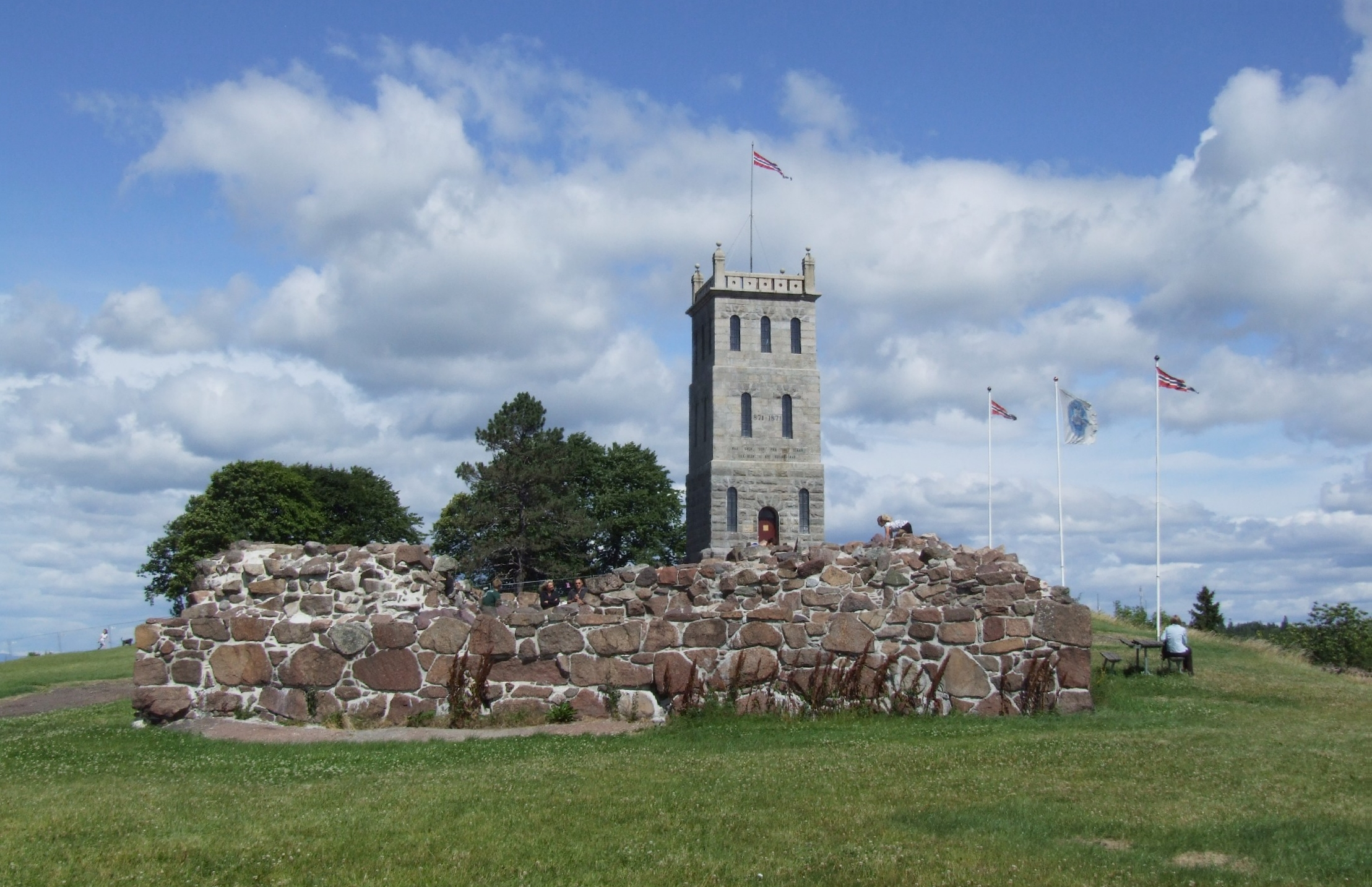 Tønsberg - tower and ruins of Castrum Tunsbergis